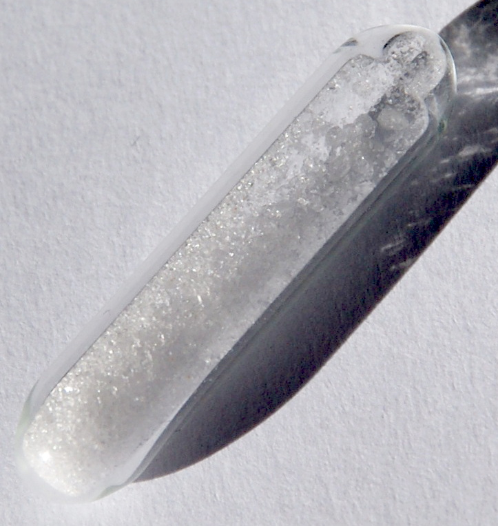 Europium sulfate, Eu2(SO4)3, a white salt